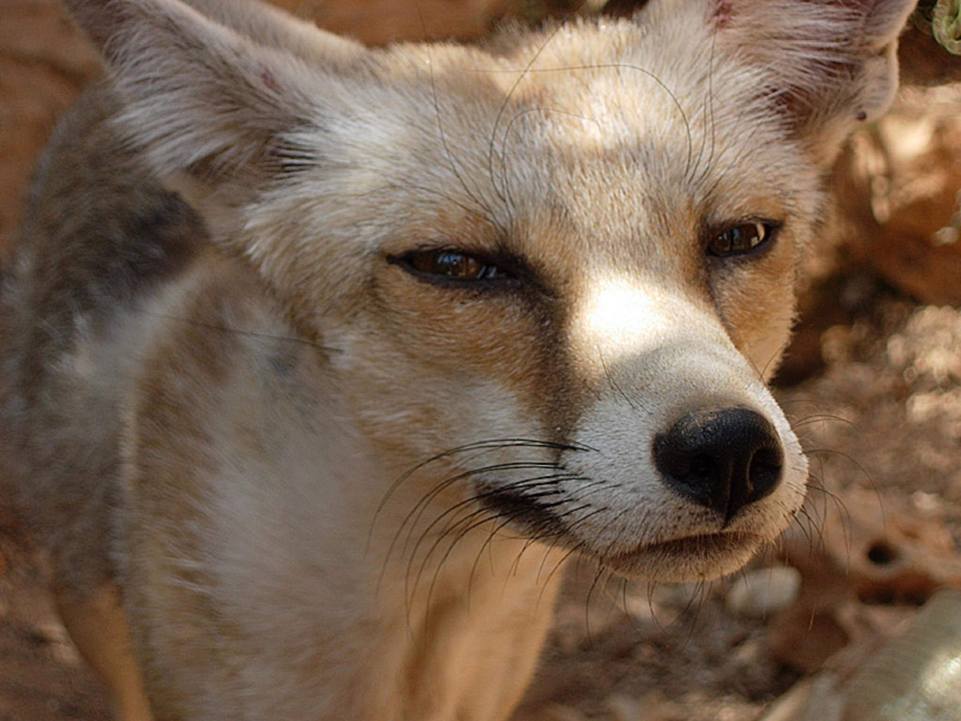 Head shot for a red fox of the palaestina subspecies, at an animal shelter and awareness center called Animal Encounter located near the town of Aley, Lebanon.